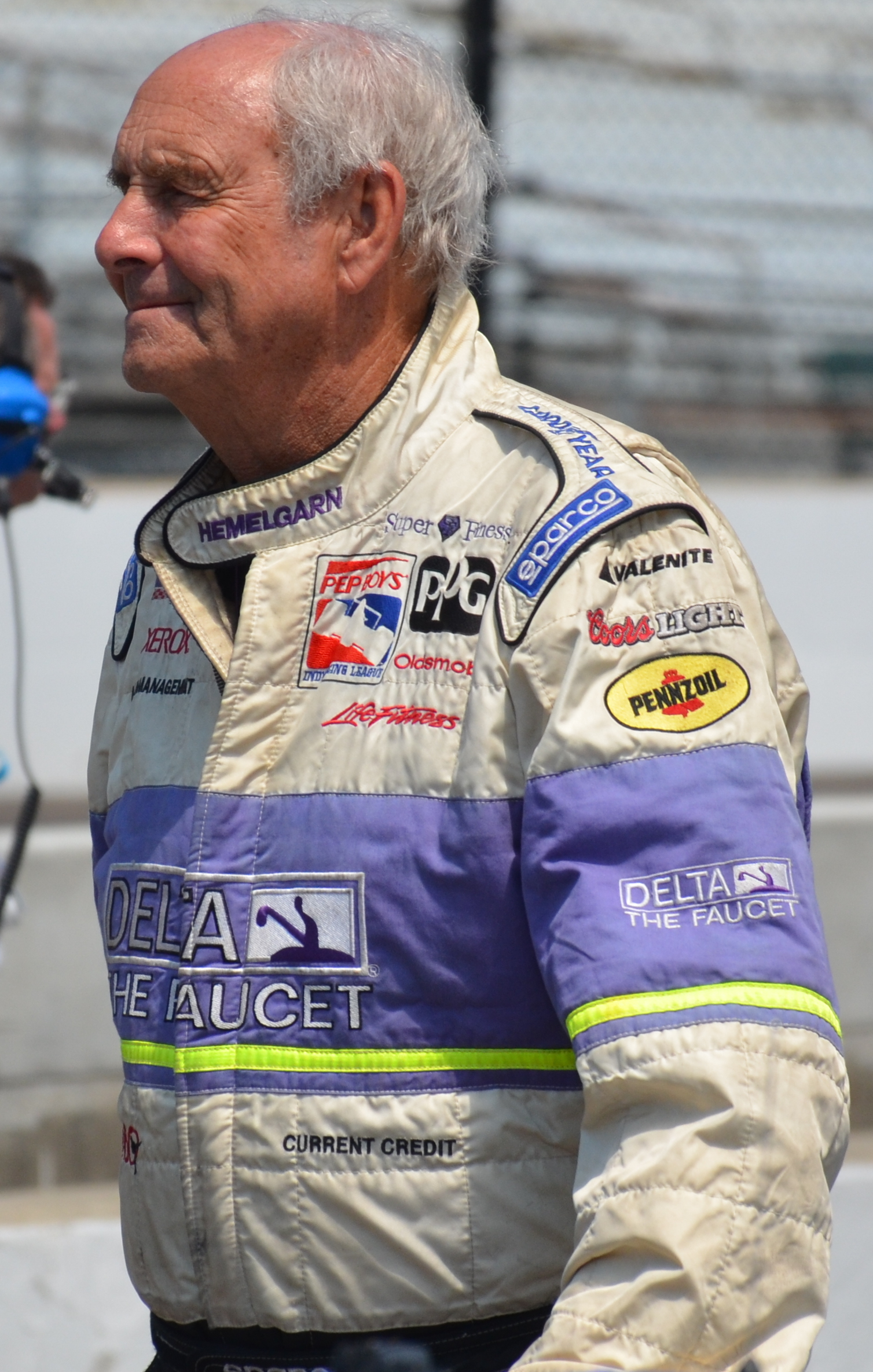 Bob Lazier at the 2018 SVRA Brickyard Vintage Invitational Pro-Am race. Pre-race driver introductions.